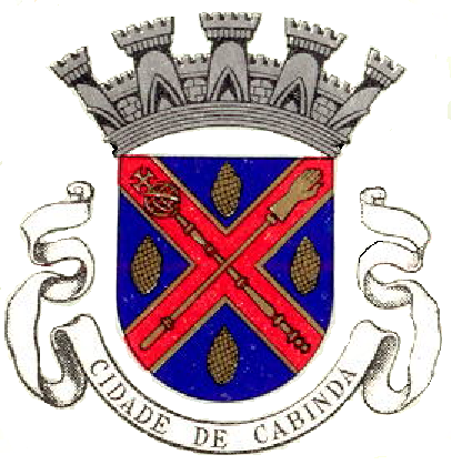 Coat of arms of the city of Cabinda, during Portuguese rule (may be still in use). Taken from a postal stamp. Emerson